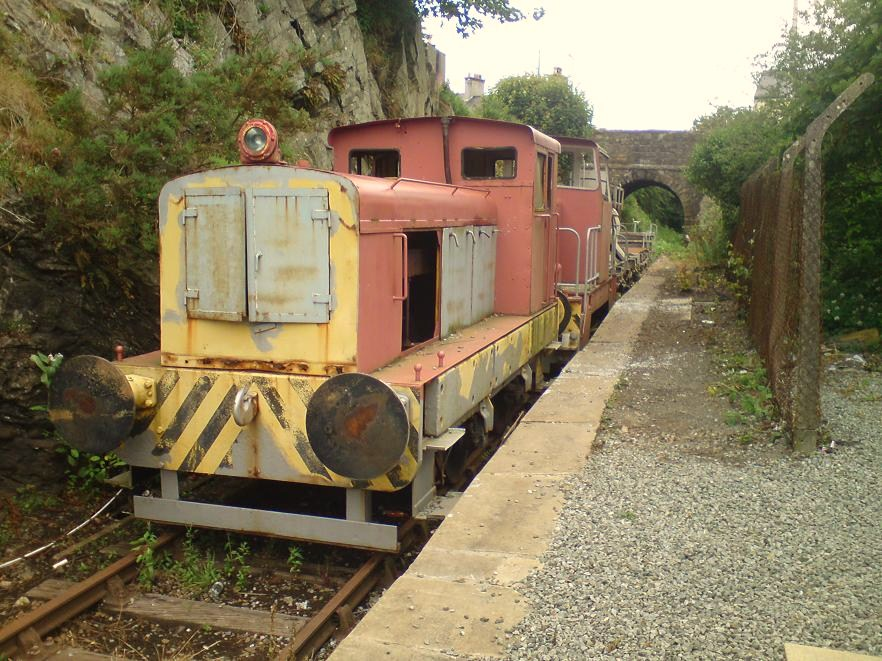 A disused diesel locomotive and flatbed at Llanerch-y-Medd station, Anglesey